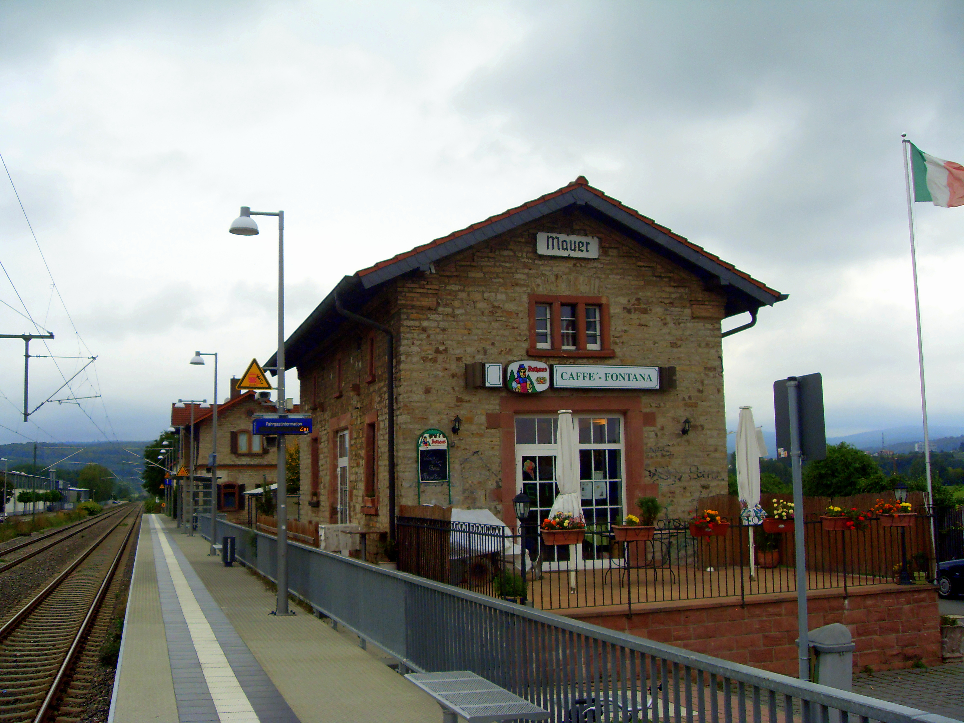 Train station in Mauer